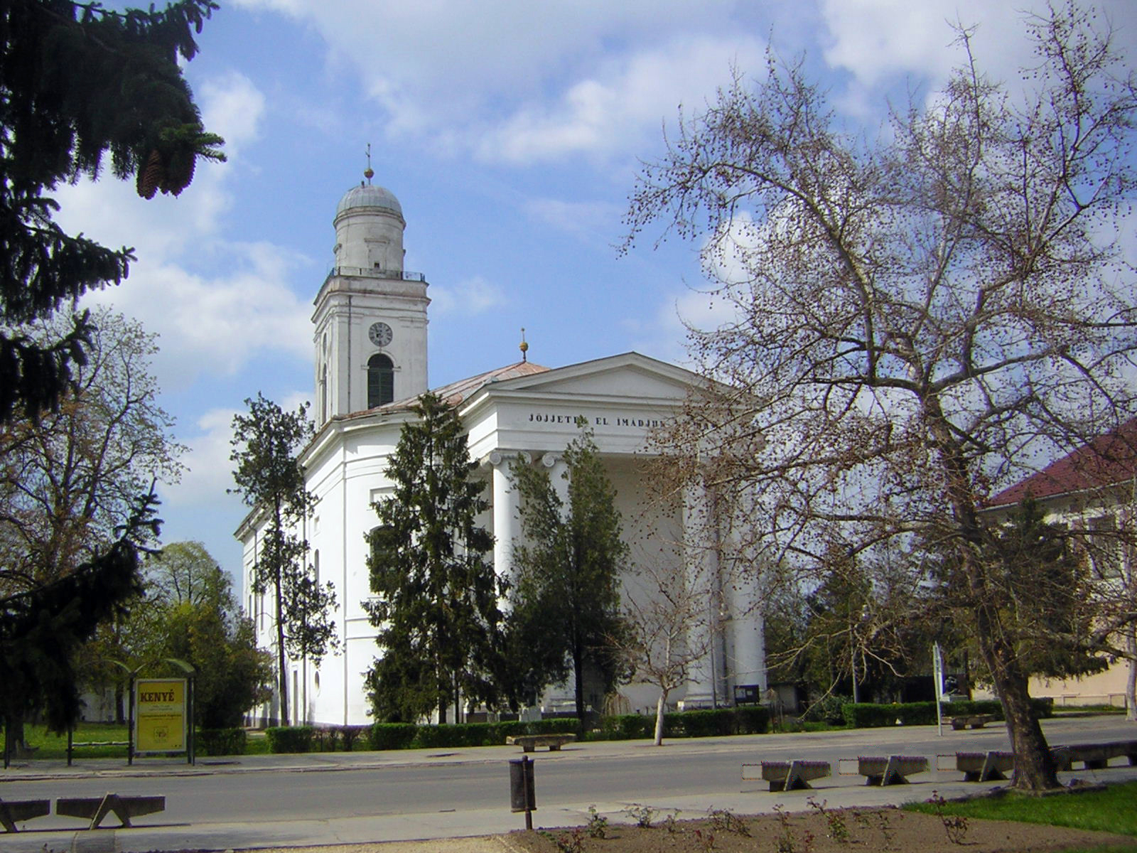 Calvinist church in Mezőtúr, Built 1677 reconstructed -1814-1845 (architect: Homályossy Ferenc).